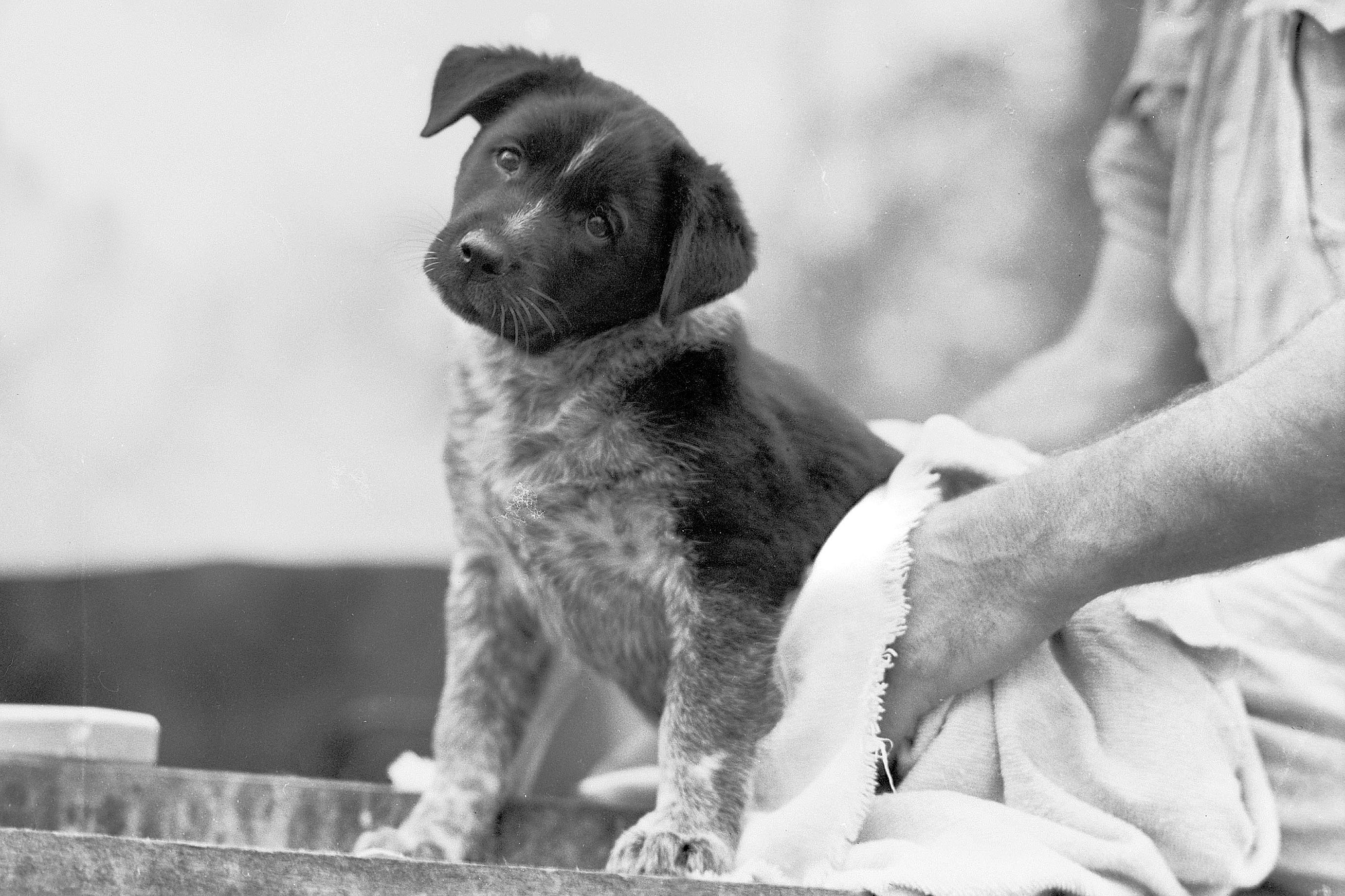 The mascot of a cookhouse at the 9th Australian division, a puppy dog, being dried after his bath, in preparation for the visit of general Douglas Macarthur, Commander in Chief, Allied Land Forces, South West Pacific Area.